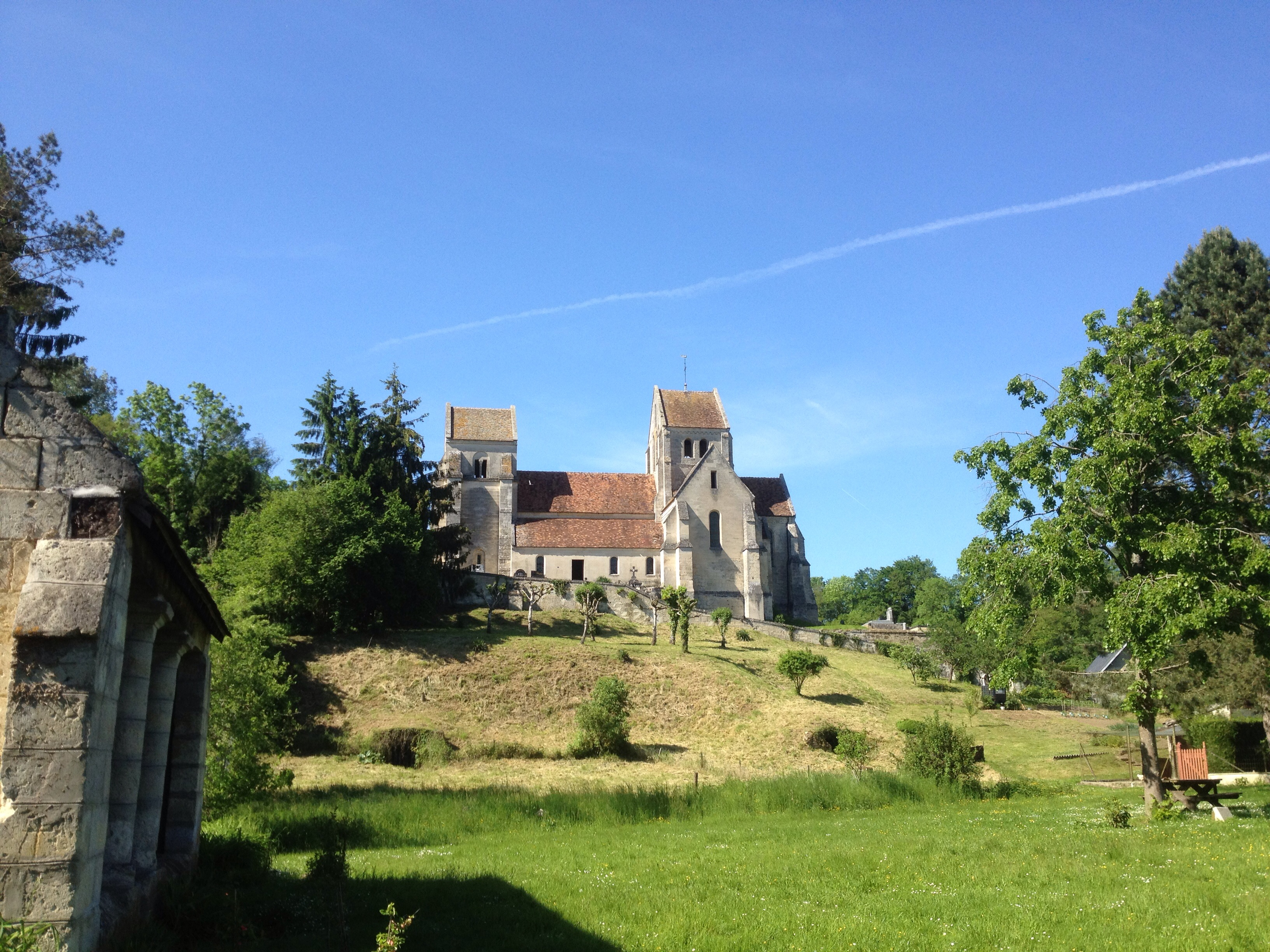 Septvaux (Aisne, France) church